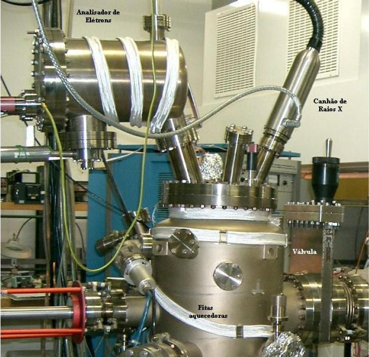 XPS. Fonte de raios X e analisador de elétrons em uma câmara de vácuo Riber.